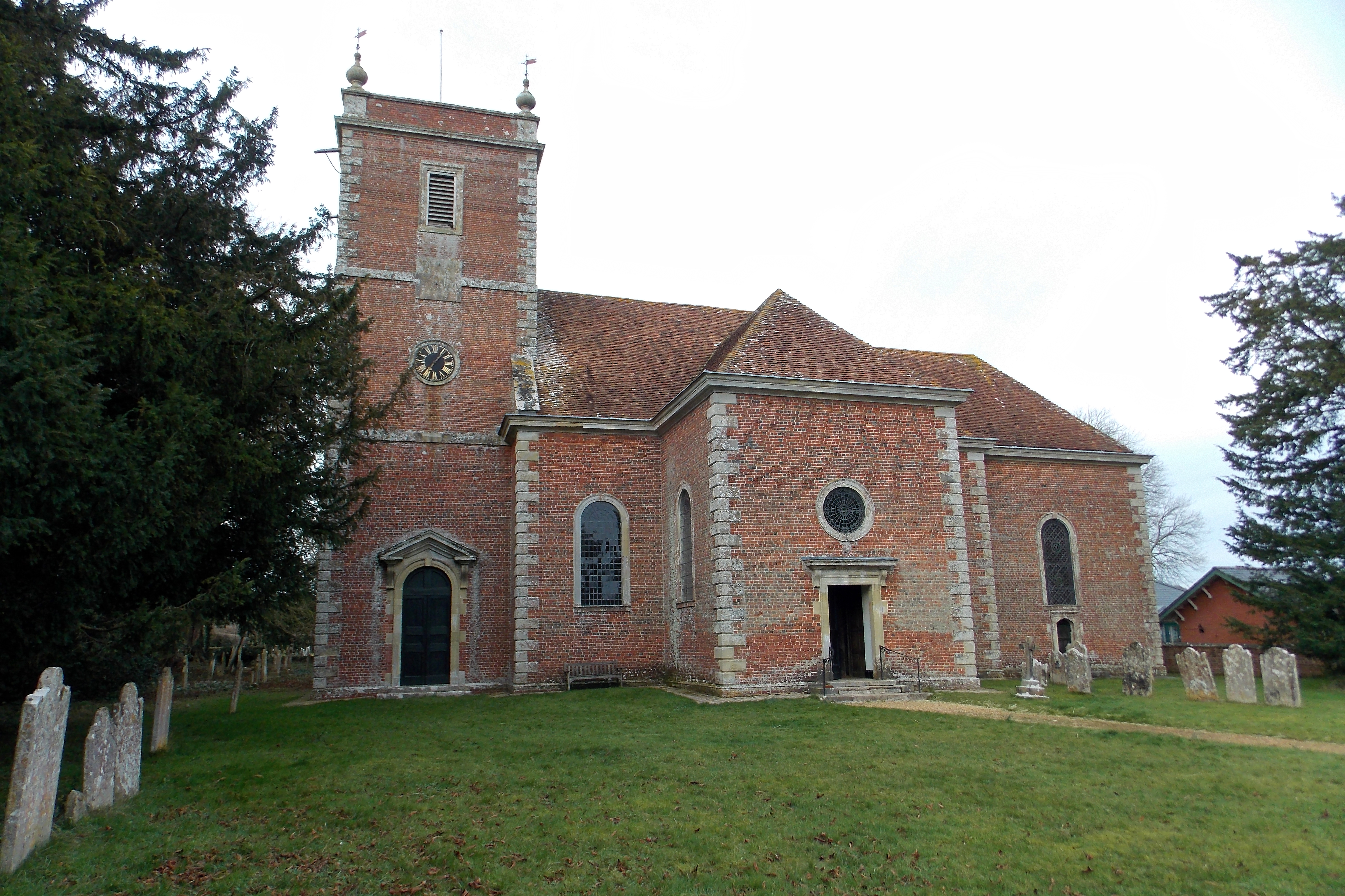 All Saints Church from the south-west of the churchyard in the village of Farley, in Wiltshire, England.